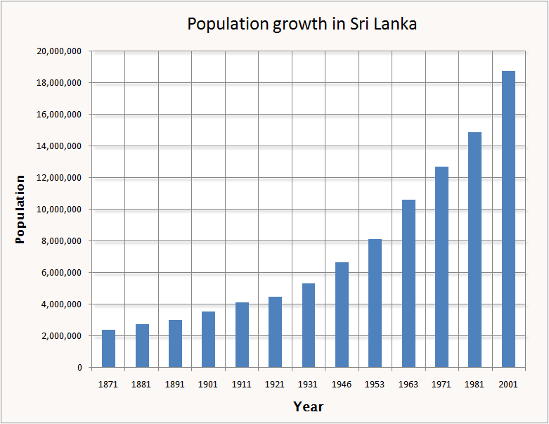 Sri Lanka's population, (1871-2001). A census has been carried out approximately every 10 years, starting in 1871.